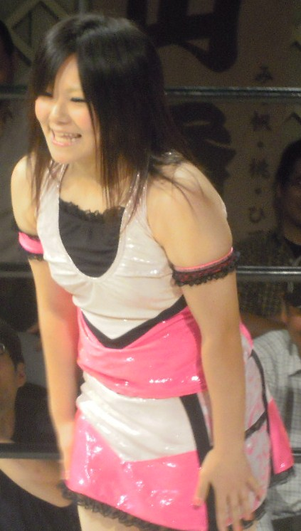 Japanese professional wrestler,Manami Katsu. Oct 9 2011 Tokyo Kinema Club.